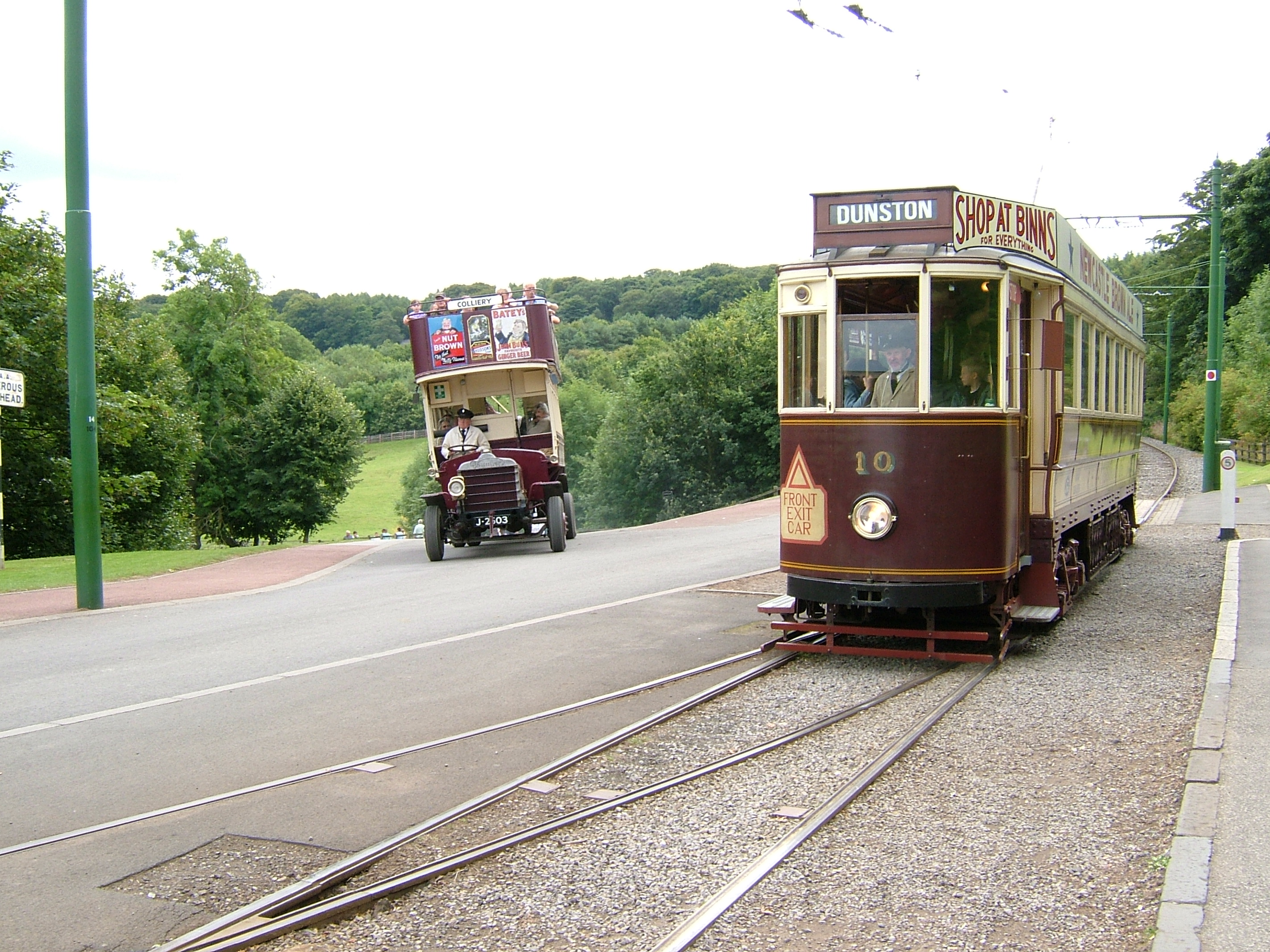 Transport at Beamish Museum, County Durham, England. This is the view south from the southern end of the Home Farm tram stop. Approaching is Tram No. 10, about to enter the passing loop for the stop. On the left is the museum' Daimler replica bus (reg. J 2503), just completing the climb up Pitfield Street, from the Pit Village.